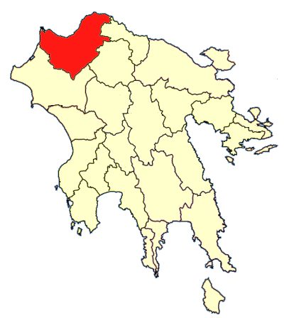 patra province